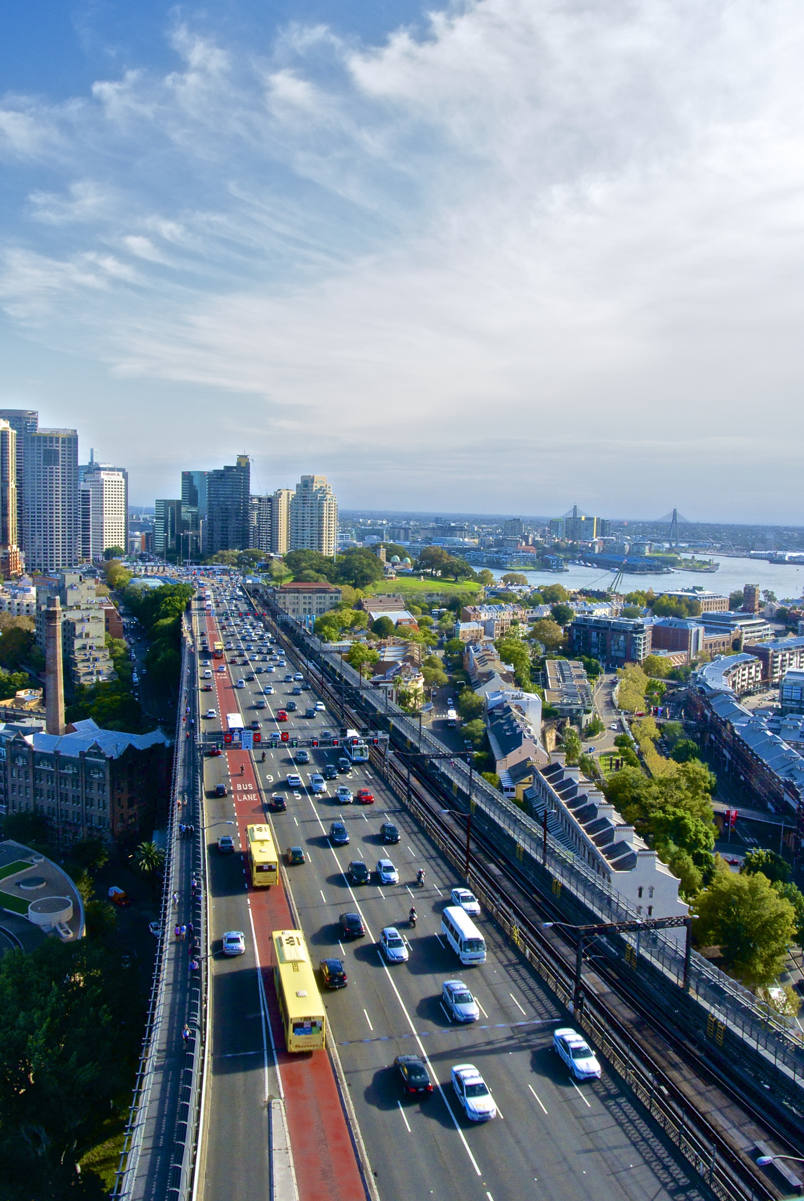 Looking south from the Sydney Harbour Bridge south east pylon lookout over the Cahill Expressway/Bradfield Highway